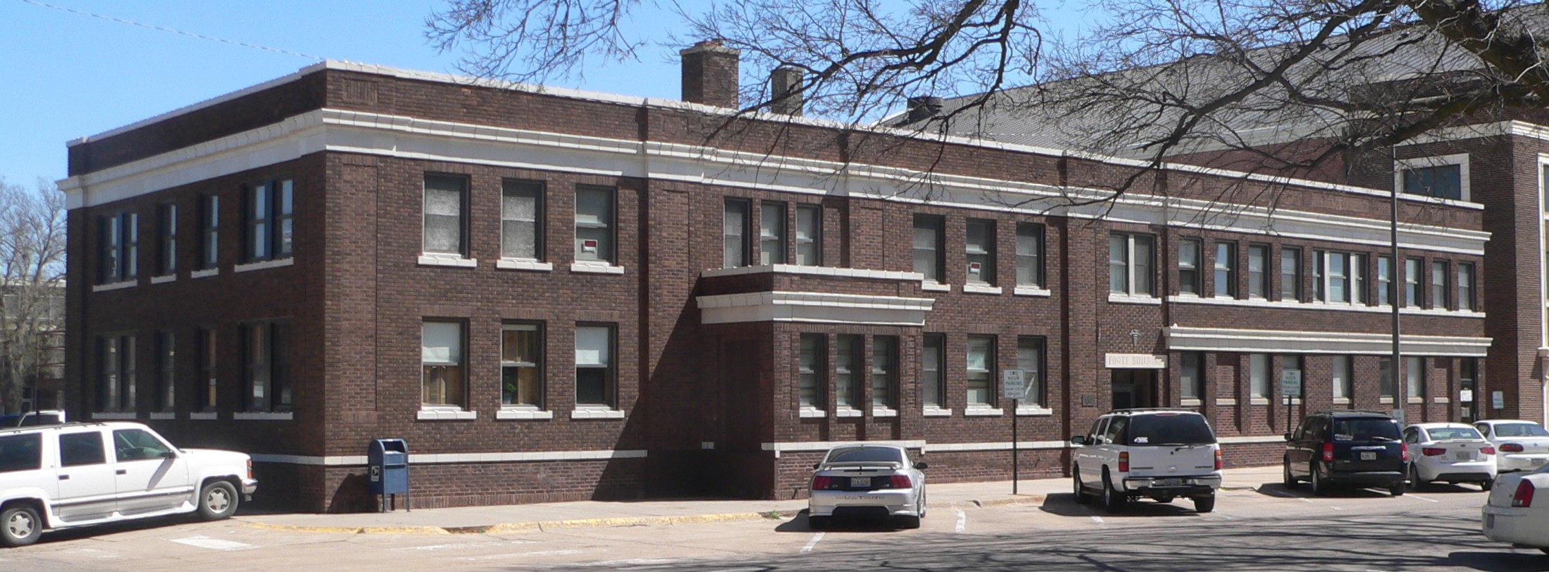 Foote building, located at 422 N. Hastings Ave. (southeast corner of Hastings Ave and 5th Street) in Hastings, Nebraska; seen from the northwest.